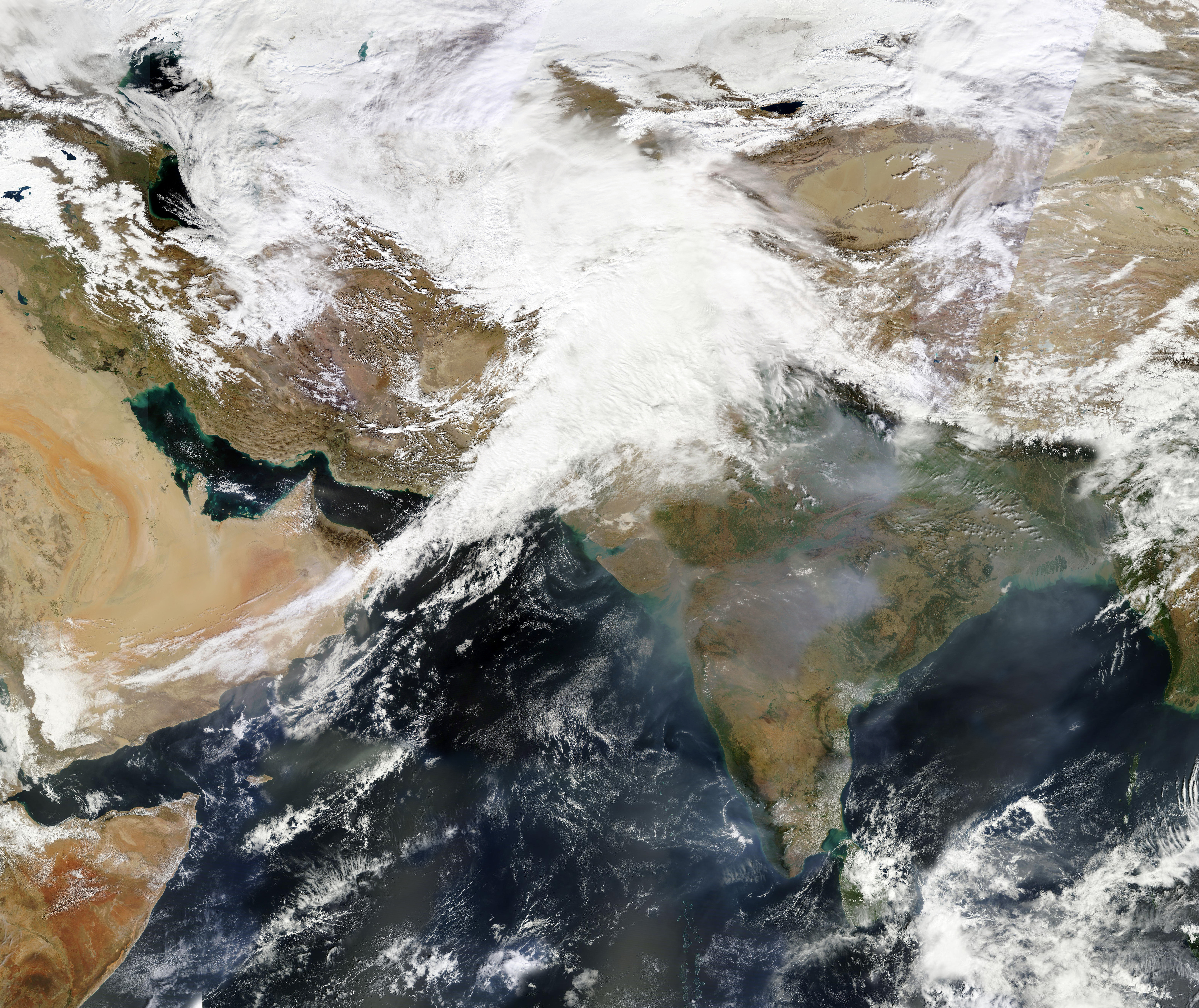 A strong Western Disturbance affecting northern India, Pakistan and Afghanistan. A trough of low extends from the system to the Arabian peninsula. Low-level clouds/Fog over central and peninsular India to the lower right of the image.